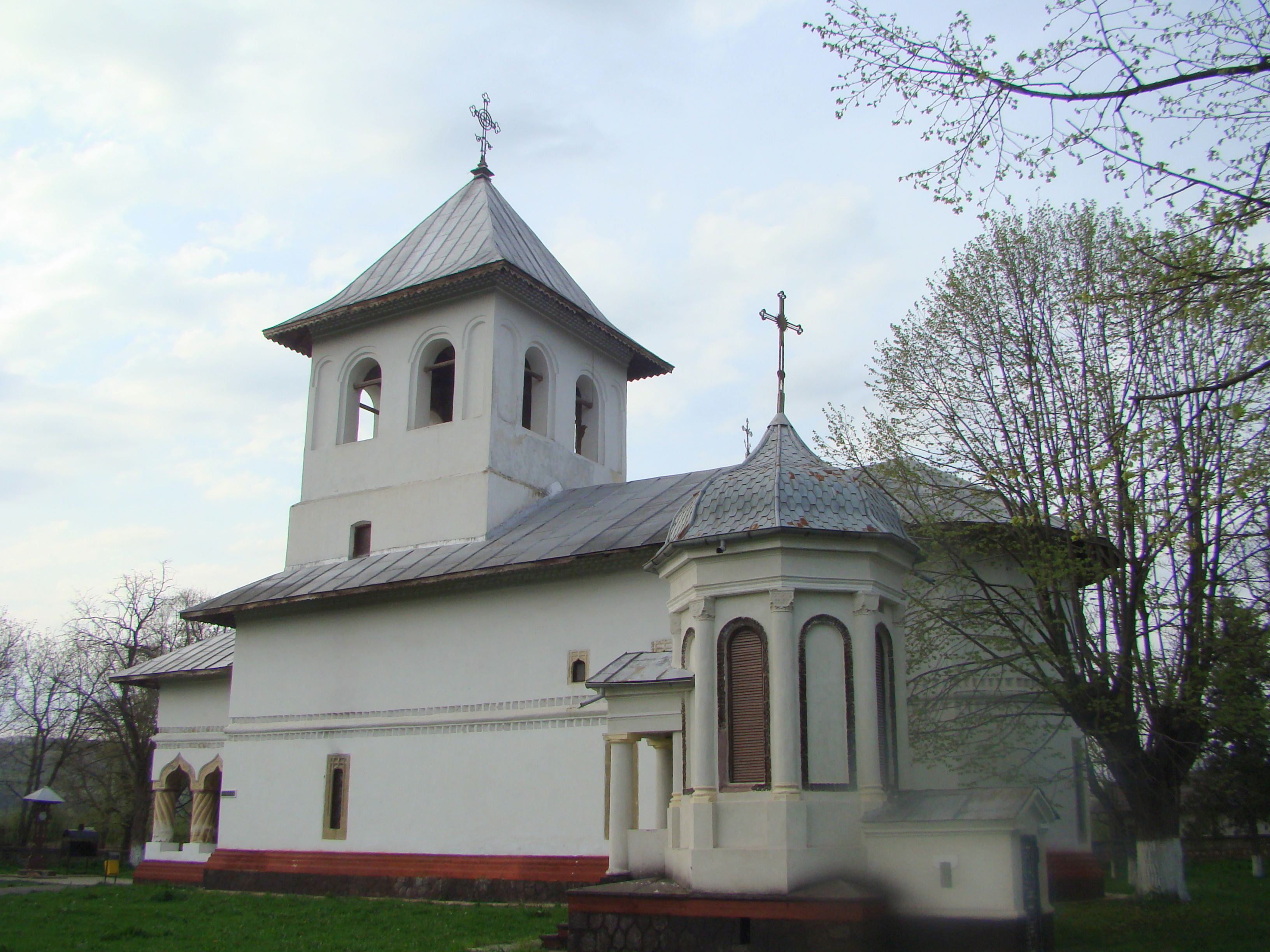 Church of the Dormition in Târgu Jiu, Gorj county, Romania